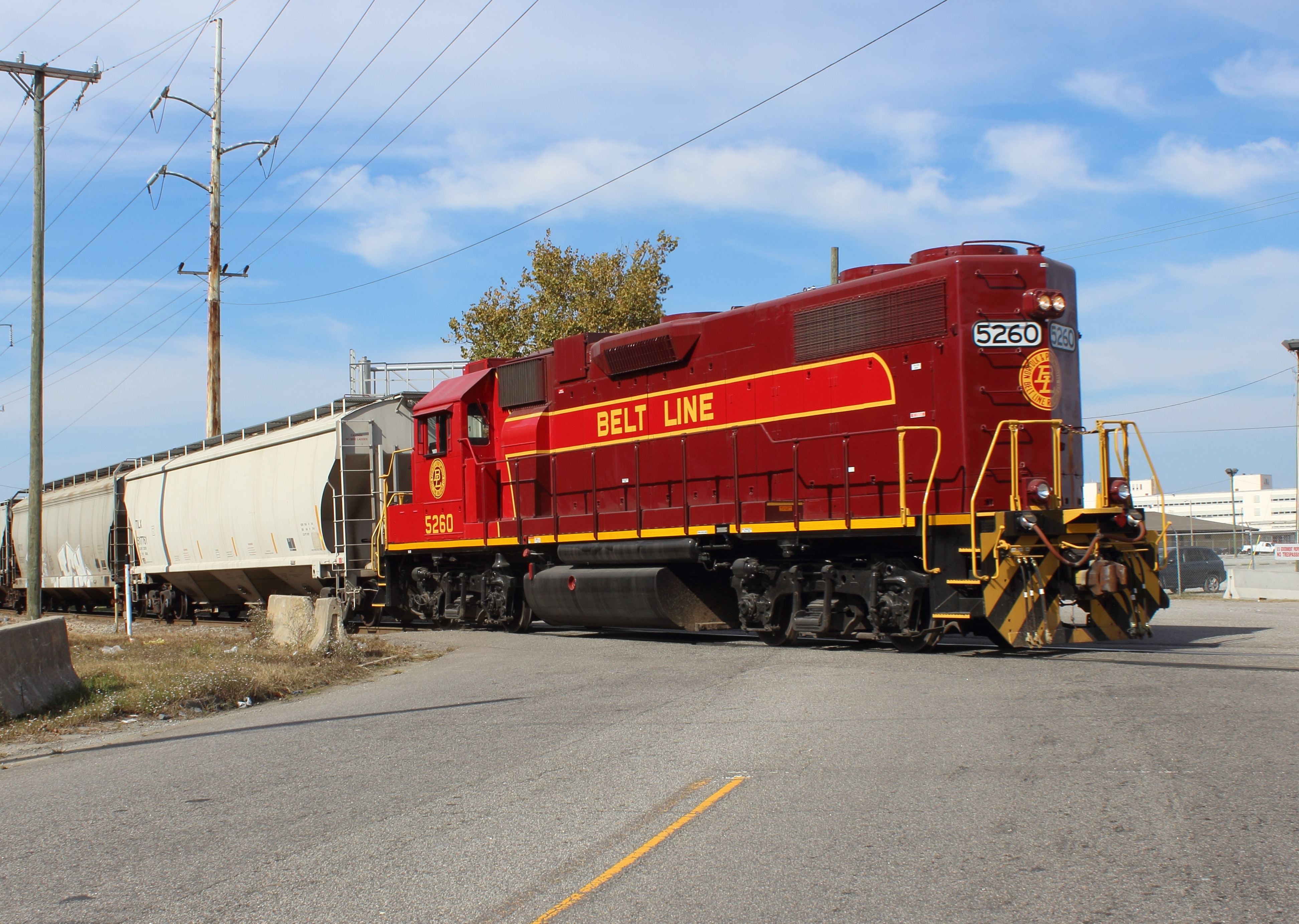 Norfolk & Portsmouth Belt Line Railroad #5260 crossing Elm Ave. Portsmouth, Virginia. At U.S. Norfolk Naval Shipyard.5260 is painted a commemorative scheme as part of the Norfolk Southern, Heritage Program. Photographer: David E. George III